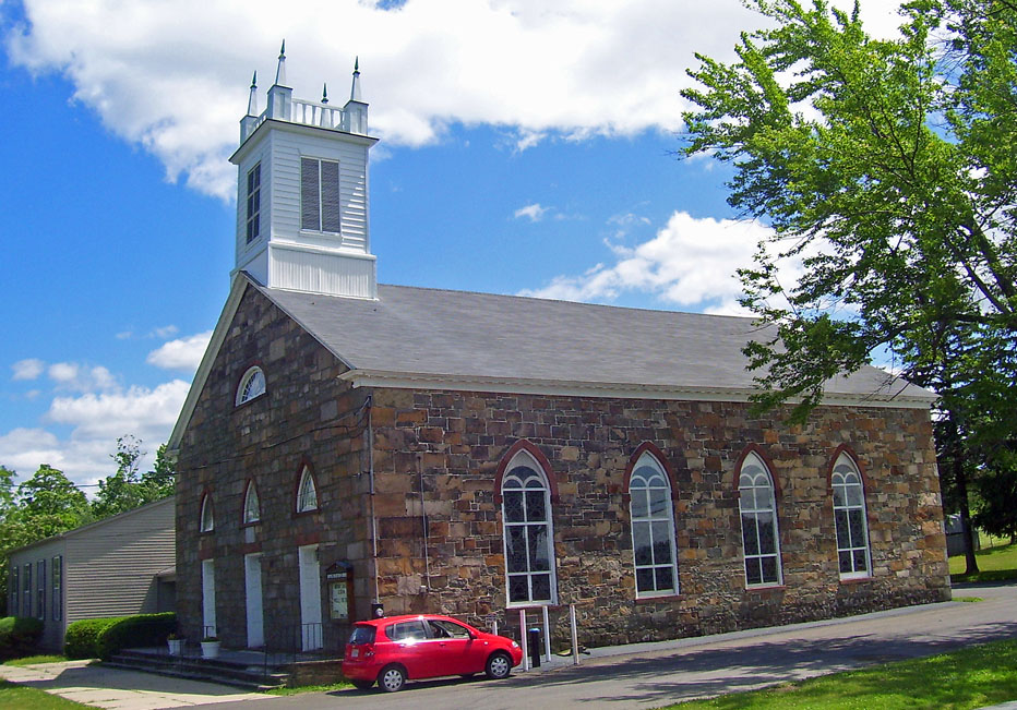 Photographed by Daniel Case 2007-06-06